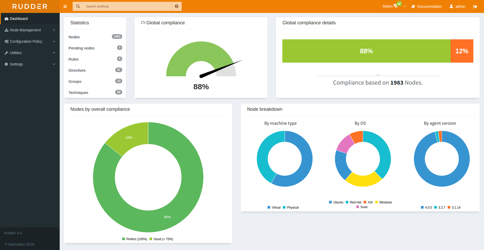 This is a screenshot of the home page of the Rudder application, showing an overview of the state of the configuration.